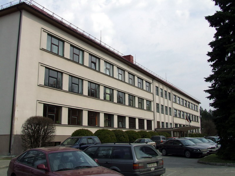 Kaunas Forestry and Environmental Engineering College, Lithuania